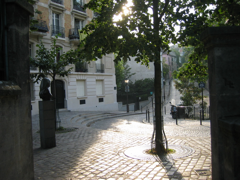 Place Dalida and rue de l'Abreuvoir, XVIIIe arrondissement, Paris, France